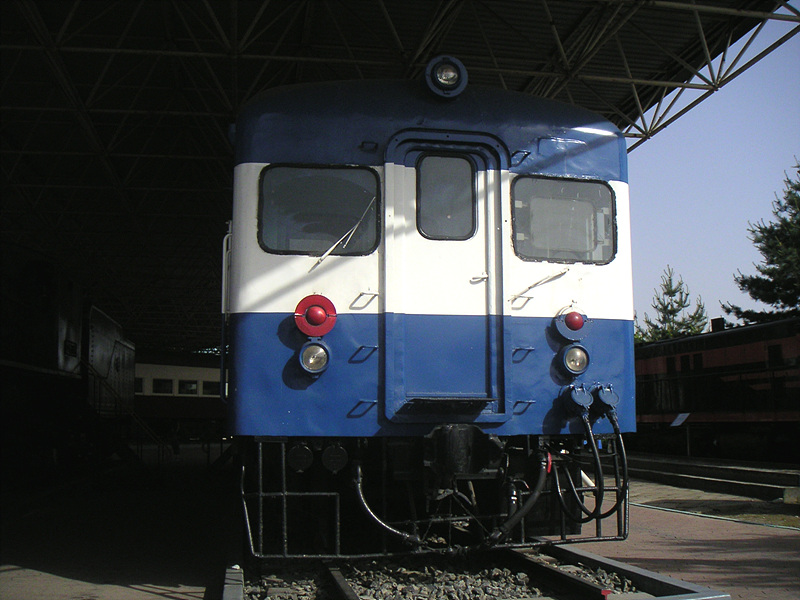 Diesel Hydraulic Car in Railway Museum in South Korea